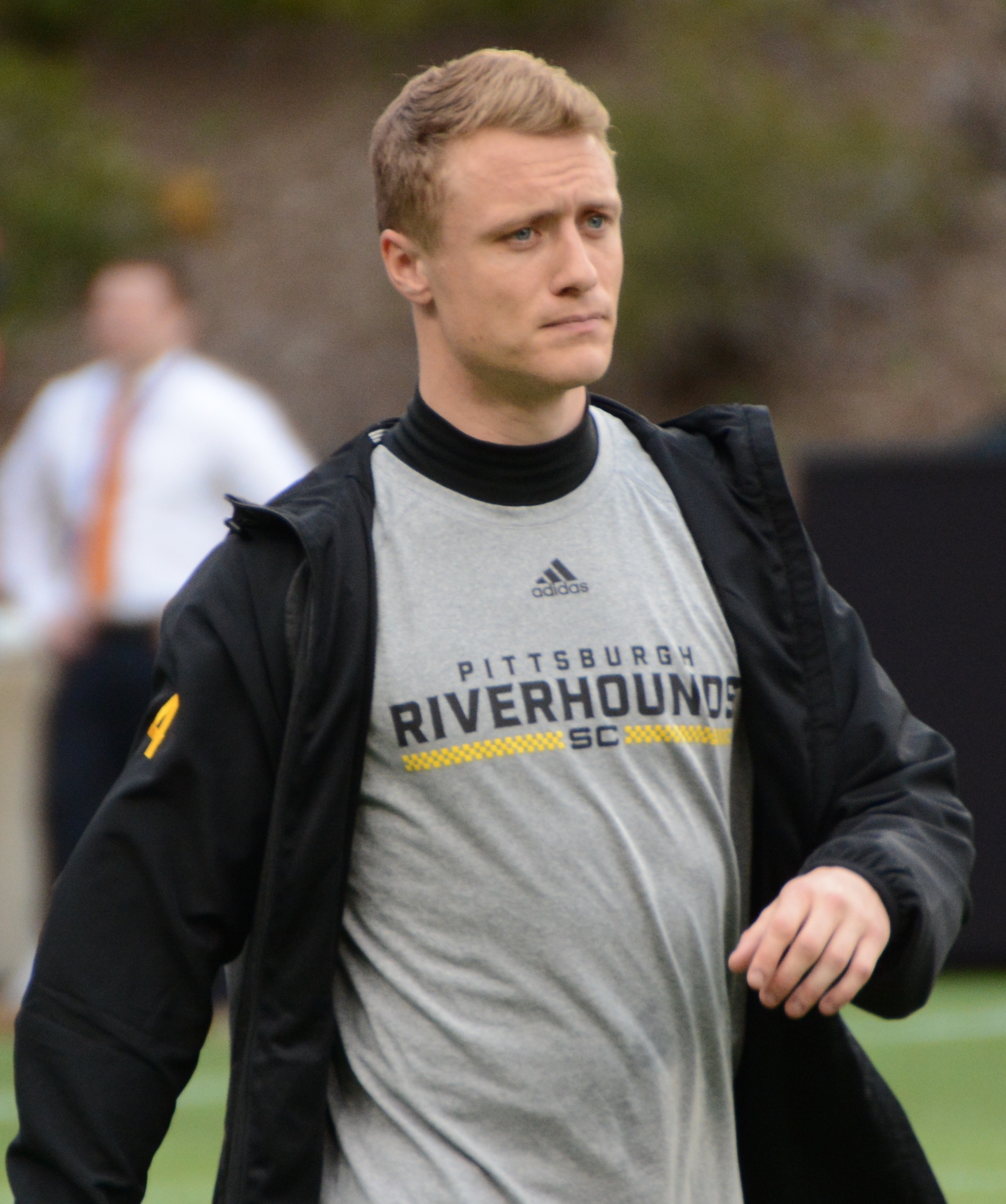 Taken during a USL regular season match between FC Cincinnati and Pittsburgh Riverhounds at Nippert Stadium in Cincinnati, USA on April 21, 2018.